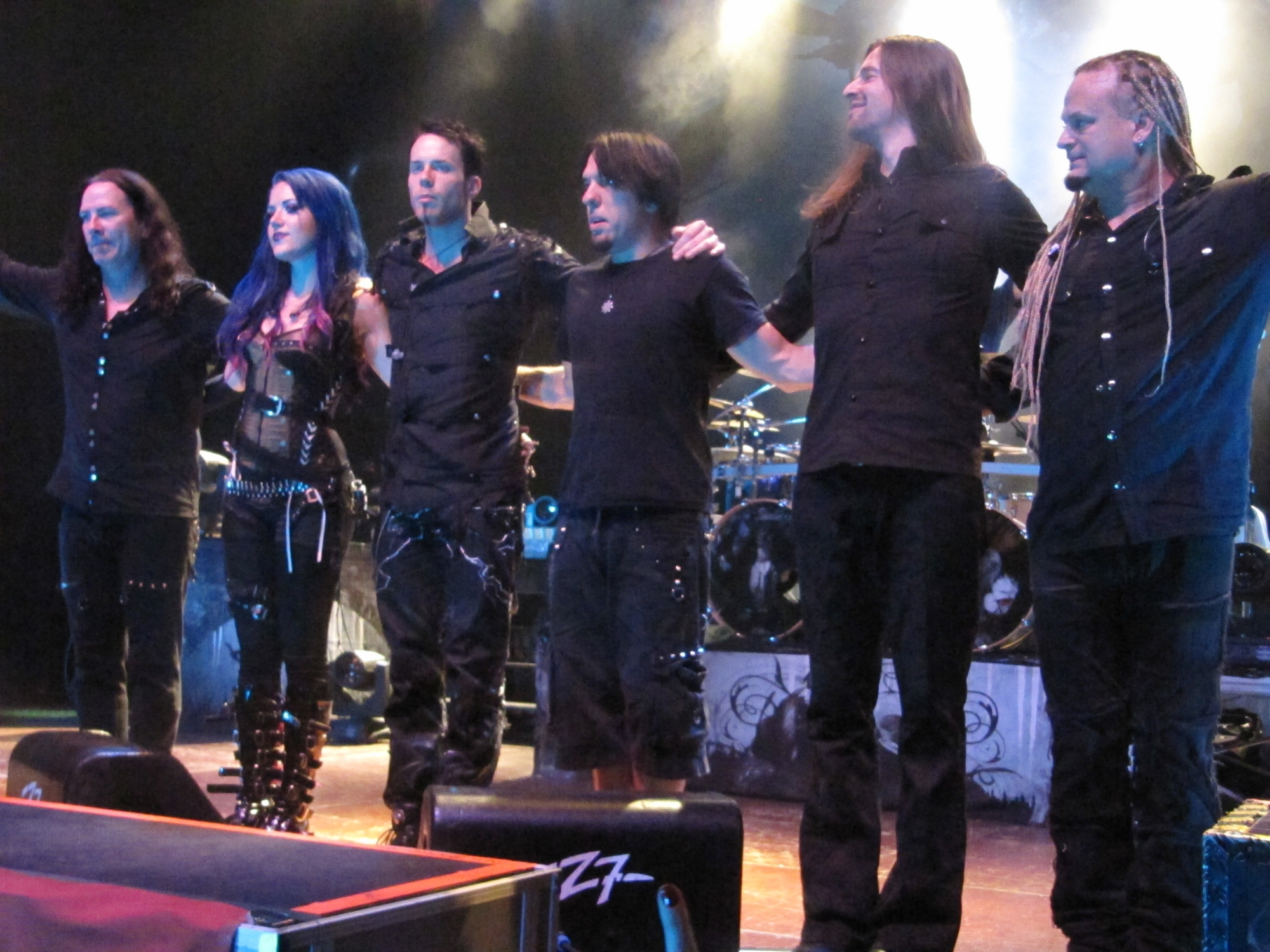 Kamelot - Live in Pratteln/CH 2013